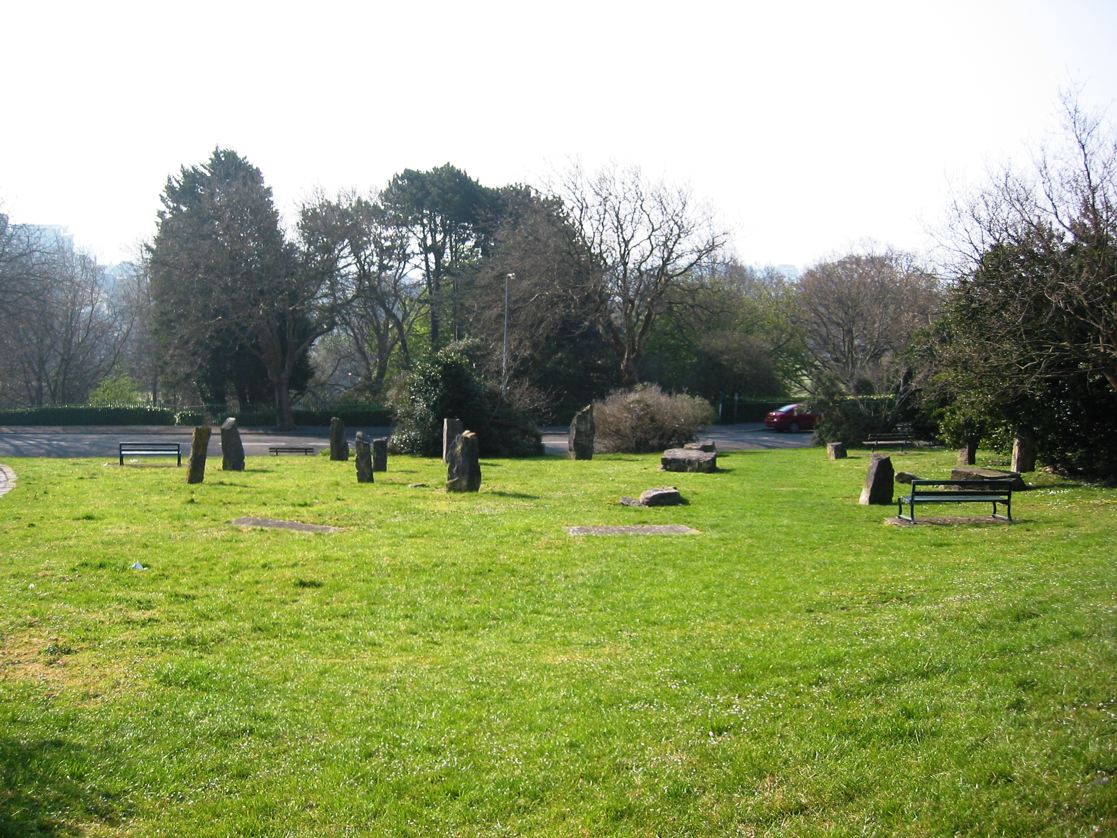 The Gorsedd stones above Romilly Park, Barry, Vale of Glamorgan